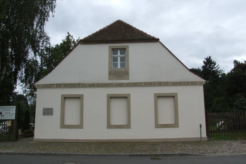 Historic school building in Reckahn